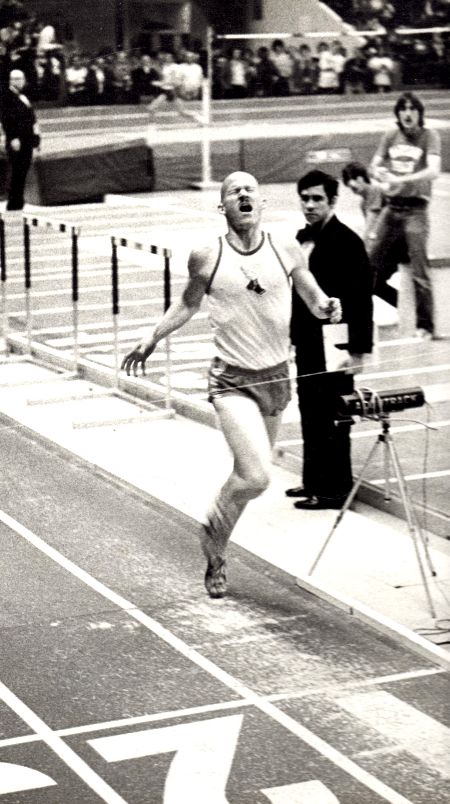 Dick Buerkle setting world record for indoor mile (3:54.9) on Jan. 13, 1978, in College Park, Md. Photo by Philip G. Tardif